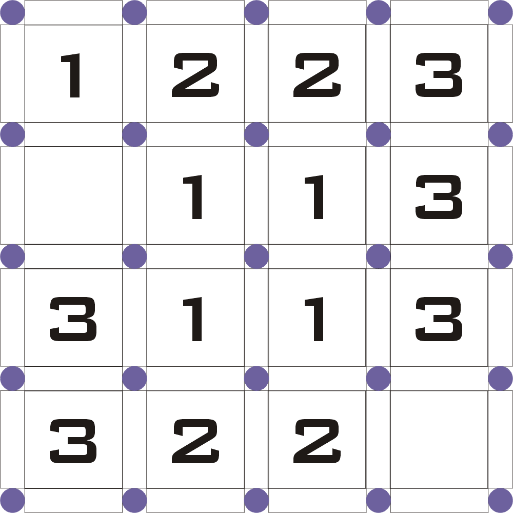 Example of a Suriza.